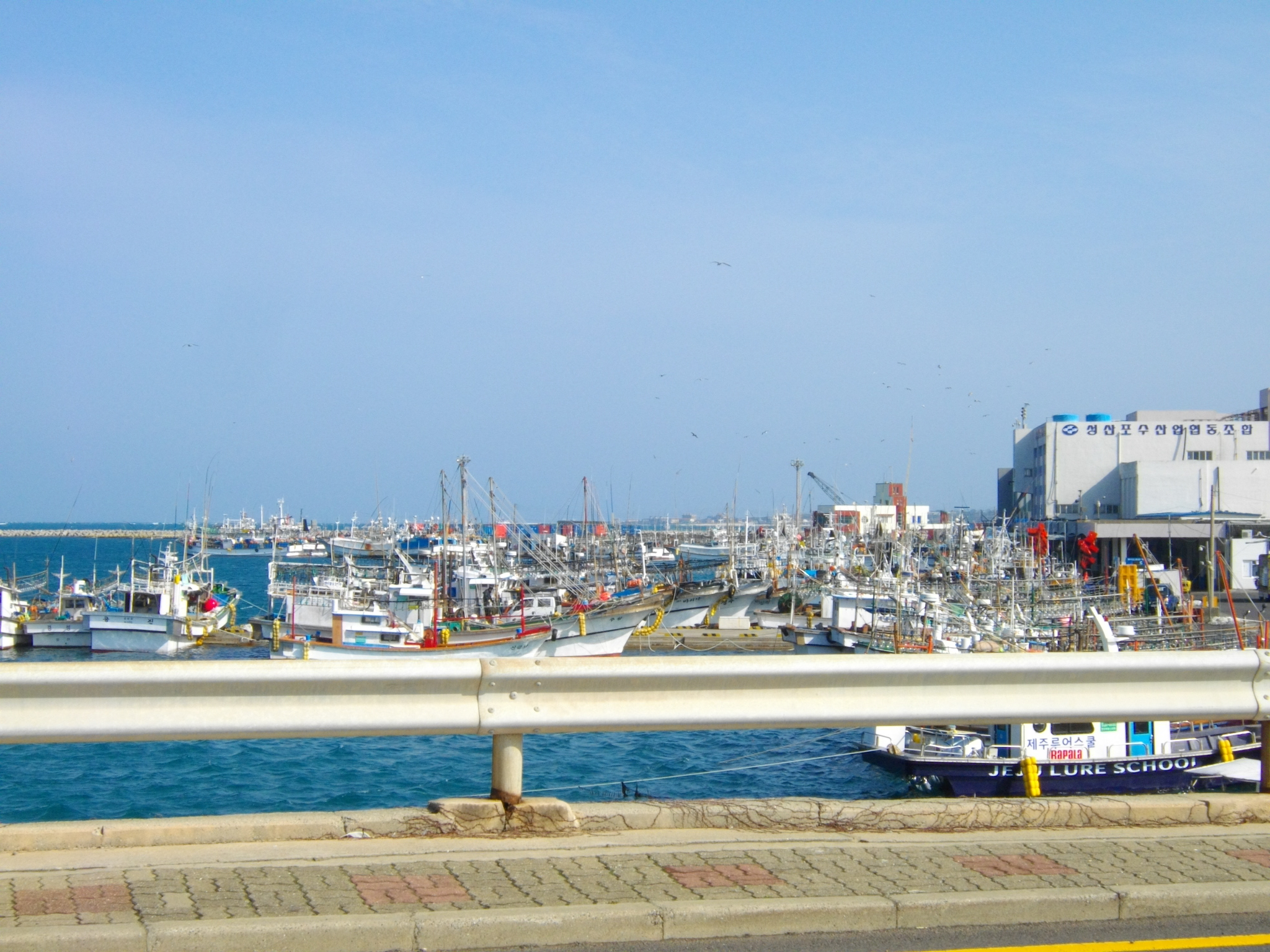 Seongsan Harbor